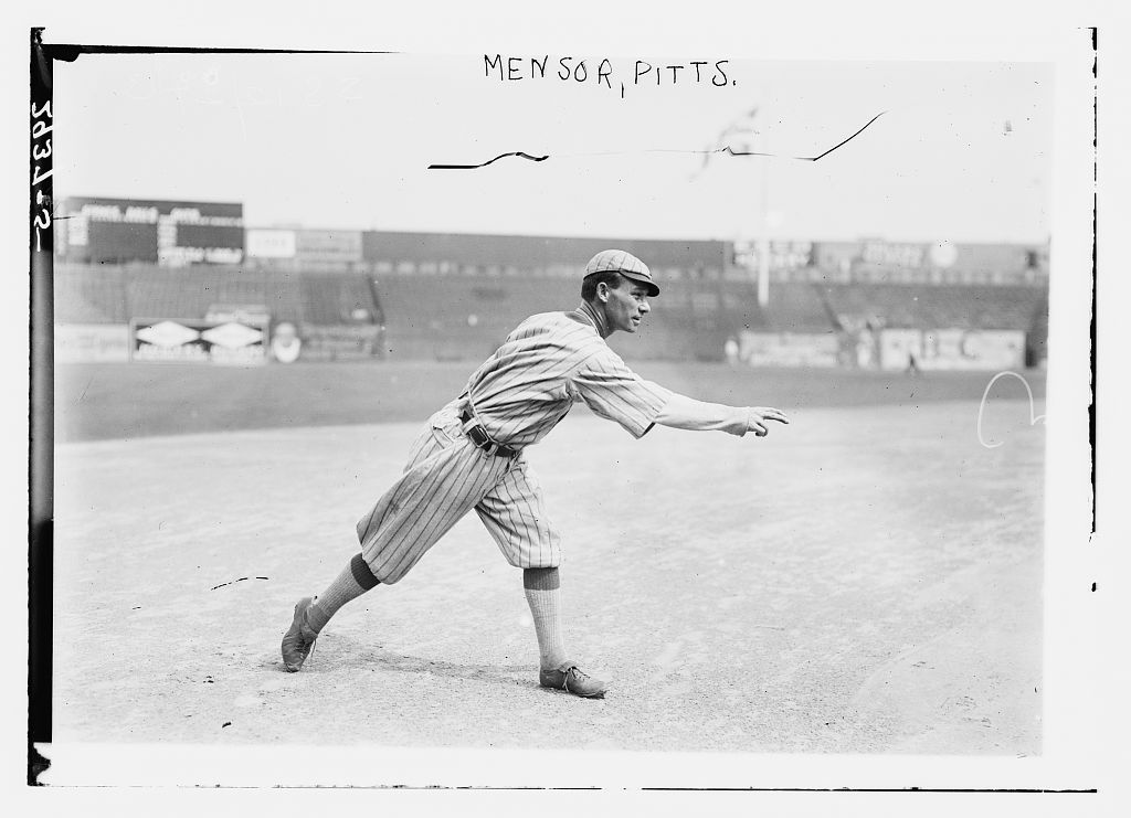 Bain News Service,, publisher. Ed Mensor, Pittsburgh NL (baseball see Pittsburgh Pirates ) 1913 1 negative : glass ; 5 x 7 in. or smaller. Notes: Original data provided by the Bain News Service on the negatives or caption cards: Mensor, Pitts. Corrected title and date based on research by the Pictorial History Committee, Society for American Baseball Research, 2006. Forms part of: George Grantham Bain Collection (Library of Congress). Format: Glass negatives. Repository: Library of Congress, Prints and Photographs Division, Washington, D.C. 20540 USA, General information about the Bain Collection is available at Persistent URL: Call Number: LC-B2- 2937-5